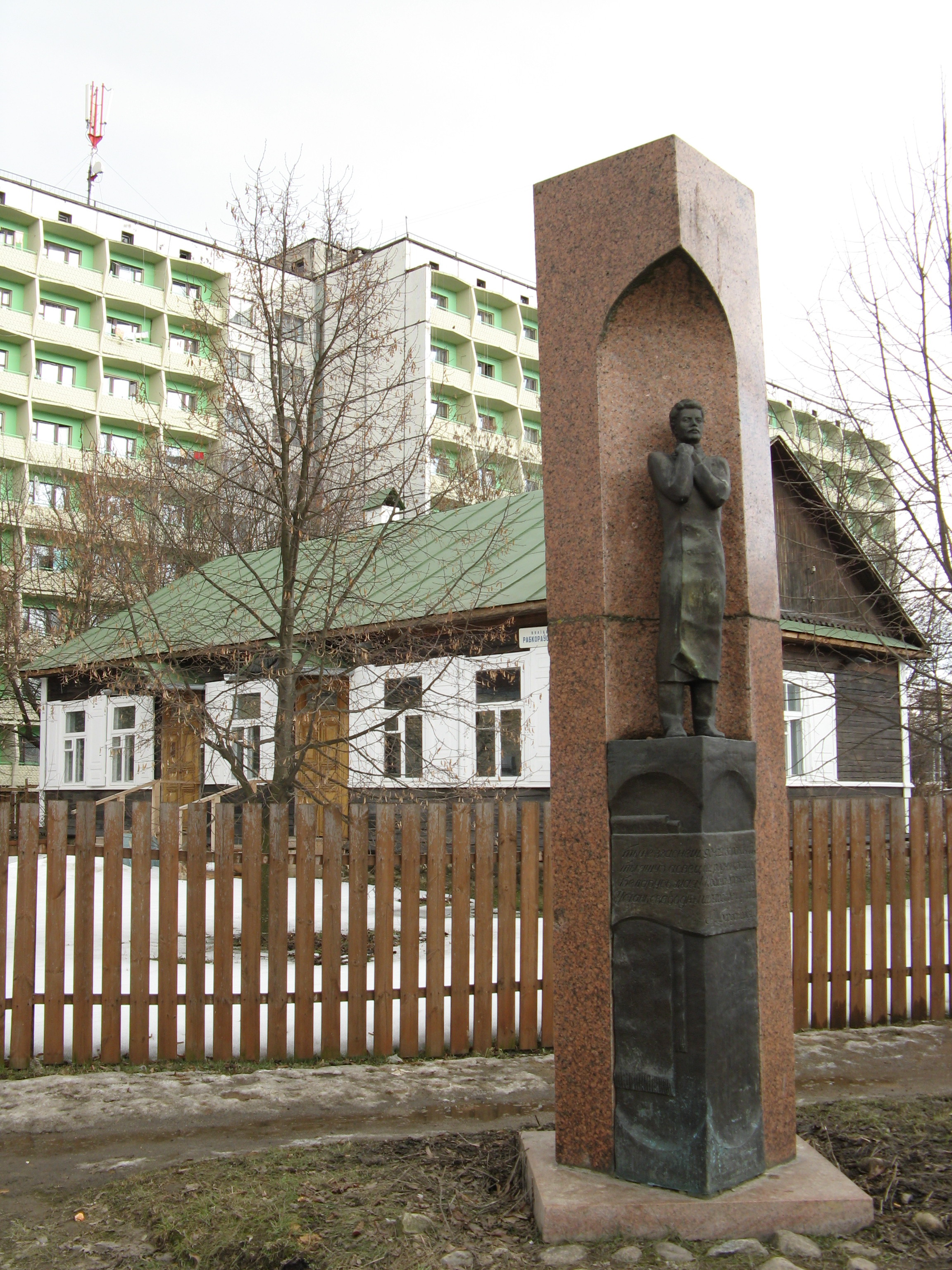 House and monument of Maksim Bahdanovič (Minsk, Rabkoraŭskaja str., 17)